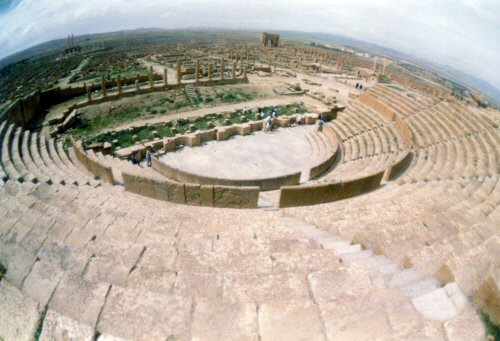 Roman Theatre, Timgad (Algeria) photo token by M.GASMI 2005. Source= Own photograph by uploader. Author= M.GASMI.